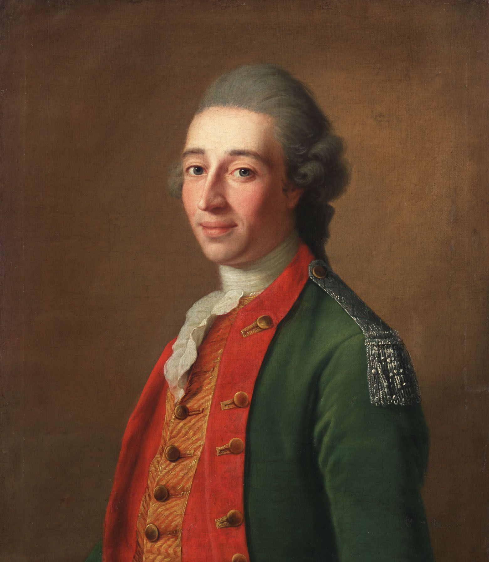 Johann Jakob von Pistor (1739-1814) is shown on a reddish brown background, in half-length in three-quarters profile, facing right. He is wearing a green uniform of a Russian artillery major, with silver epaulettes, red lapels and a red waistcoat fitted with golden braids. Pistor, a Hessian by birth, in 1771 joined the Russian service and would later become a Lt. General and the Chief of General Staff of Imperial Russian Army